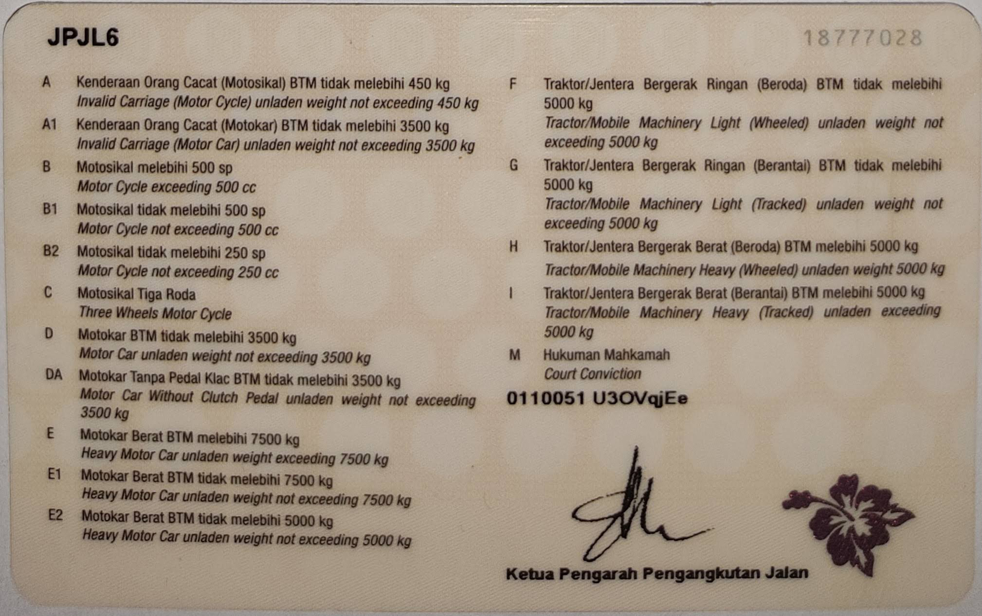 The backside of Malaysia driving licence where the classes of the licence stated clearly in the Malay language and English language. There is also the signature of Director-General of Road Transport and the serial number for the physical licence.